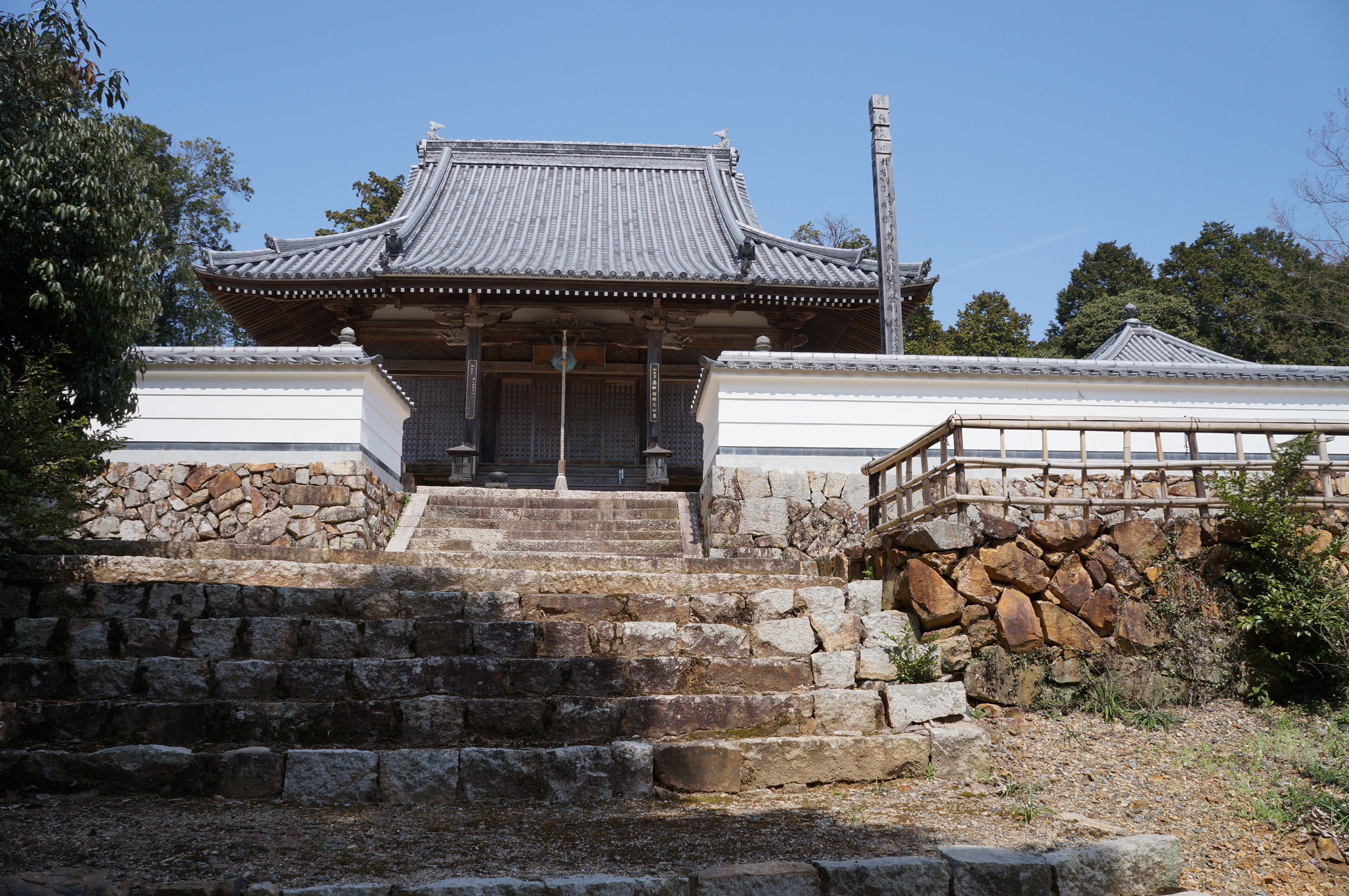 Buraku-ji temple